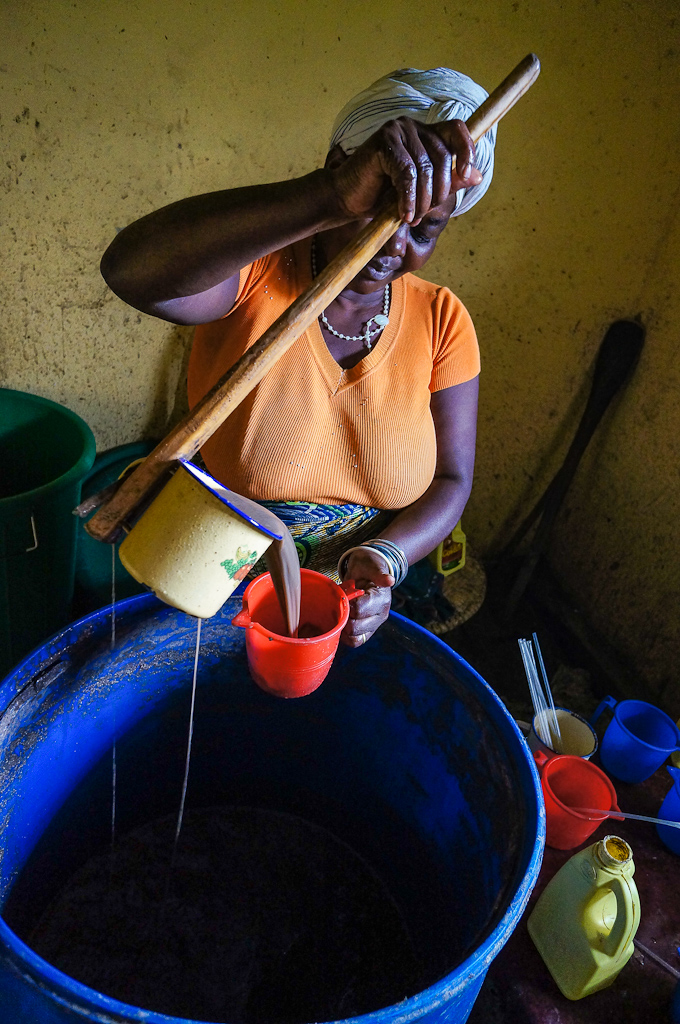 Ikigage (sorghum beer), Rwanda This is an image of food from Rwanda